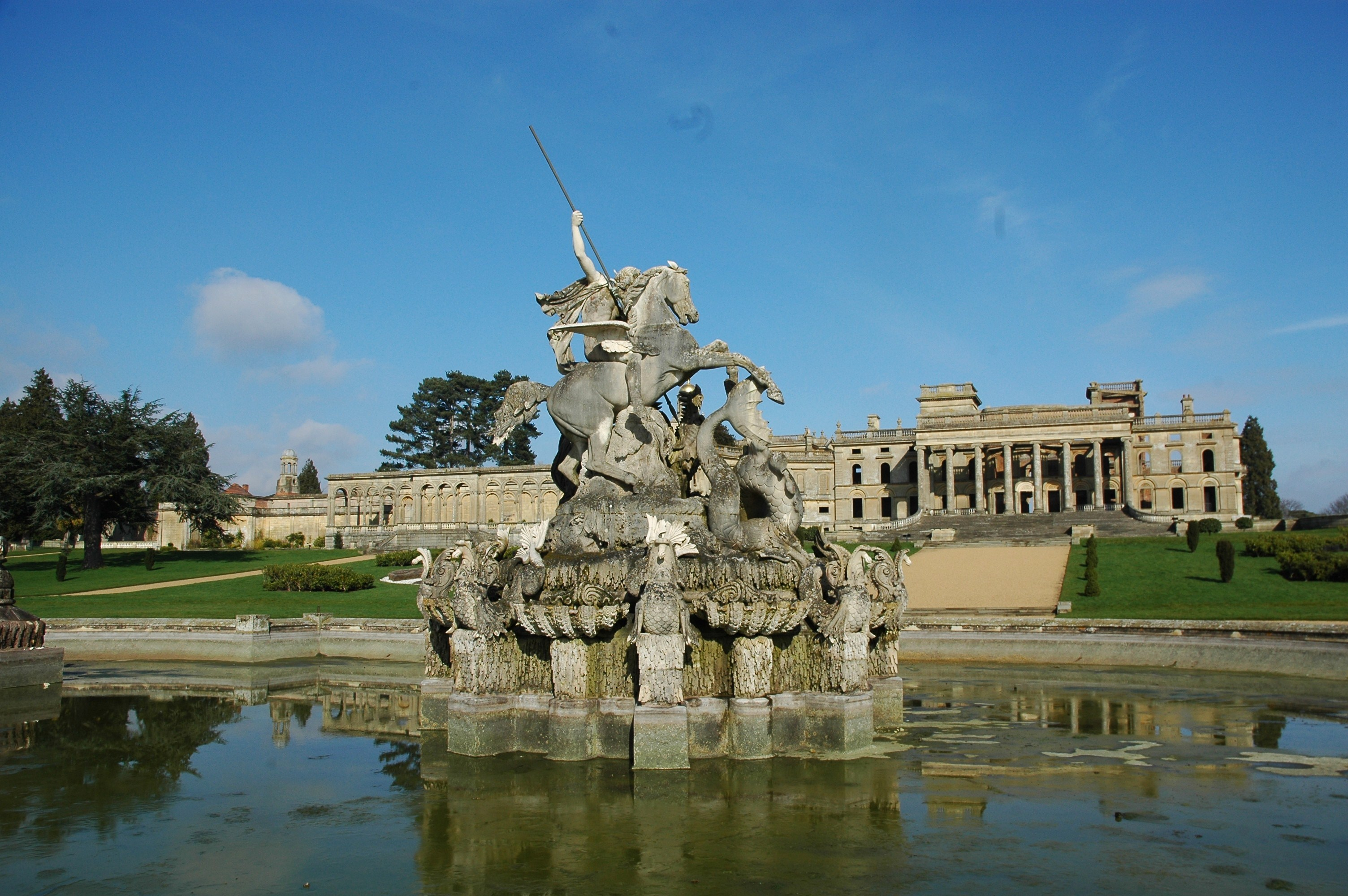 The Perseus and Andromeda Fountain — of the Witley Court Gardens. Witley Court (mansion) ruins in backround. Located in the 19th-century Witley Court landscape garden park, Worcestershire, England.